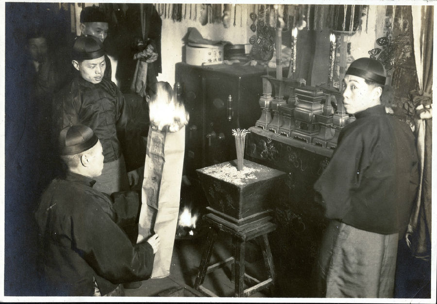 Men in early Republican China gathered to honor the God of Wealth Cai Shen after completing their ceremonies for the Kitchen God, who spies on the house for the Jade Emperor through the year. First, they set up a shrine to the god in their home. Then, they lade it with many gifts including wine, incense, and paper effigies of sycees, the old boat-shaped gold and silver ingots once used for Chinese money. The longer the flames in the ceremony burn, the more prosperity the household will see in the coming year. Finally, they kowtow, bowing low to the floor as a mark of submission and respect.